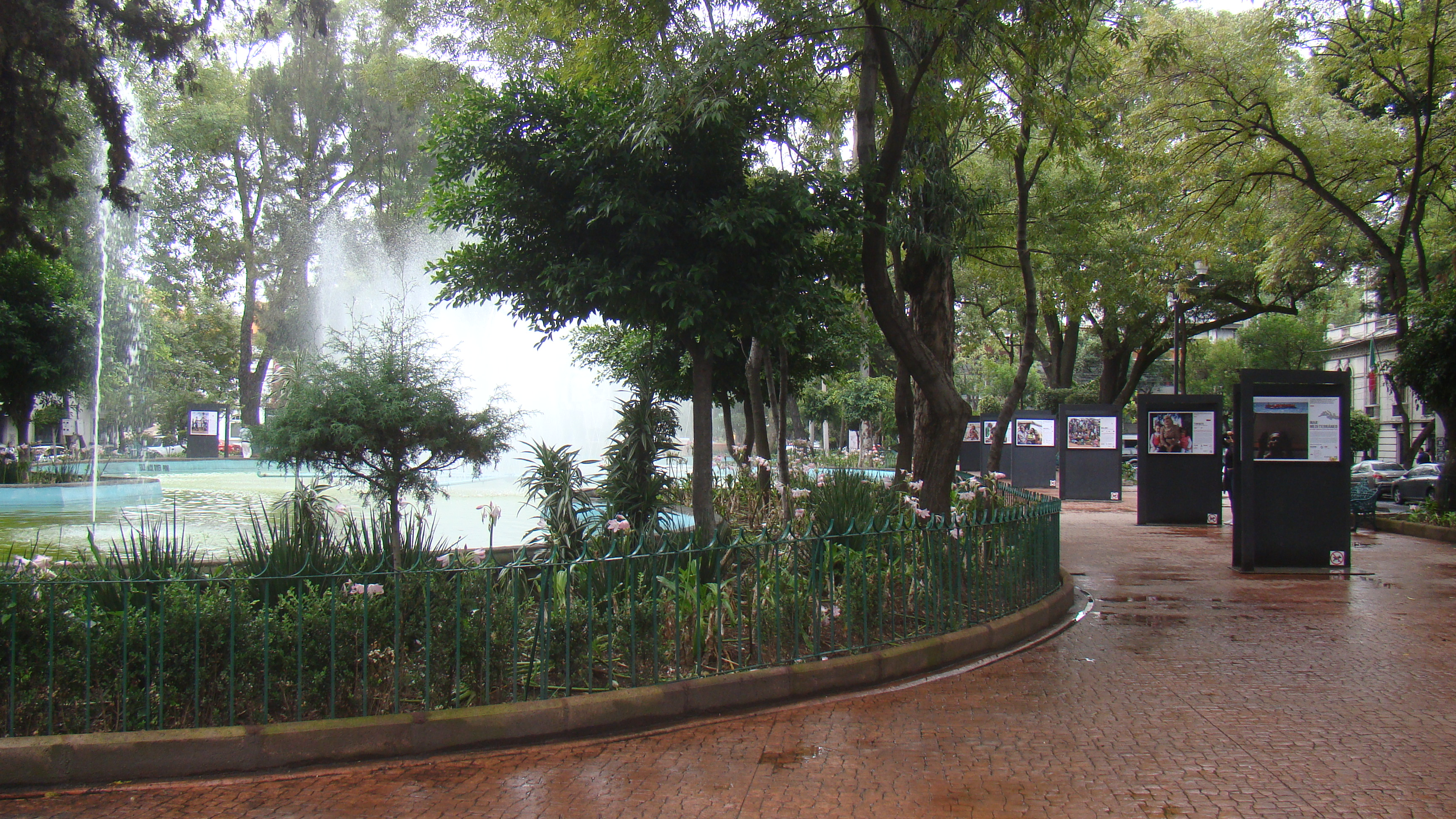 On the left side, fountains of the Plaza along with gardens with plants, flowers and trees, on the right side, signs with information